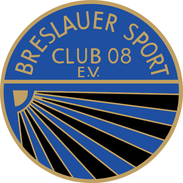 Logo of Breslauer SC 08, German football team.